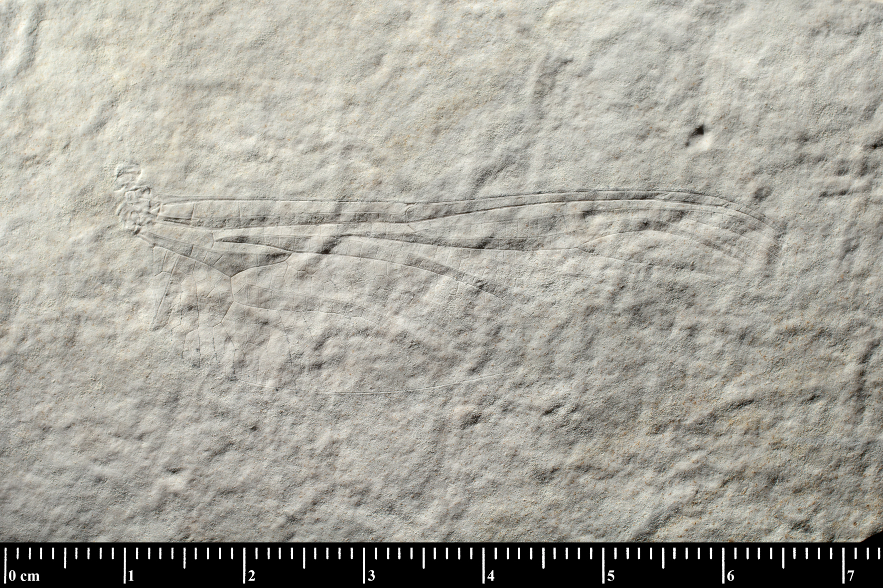 The Epiaeschna pseudoheros holotype part specimen with indirect lighting. Chattien, Oligocene; Les Figons, route d'Eguille, Aix-en-Provence, Bouches-du-Rhône, Provence-Alpes-Côte d'Azur, France Muséum national d'Histoire naturelle specimen MNHN.F.R63848